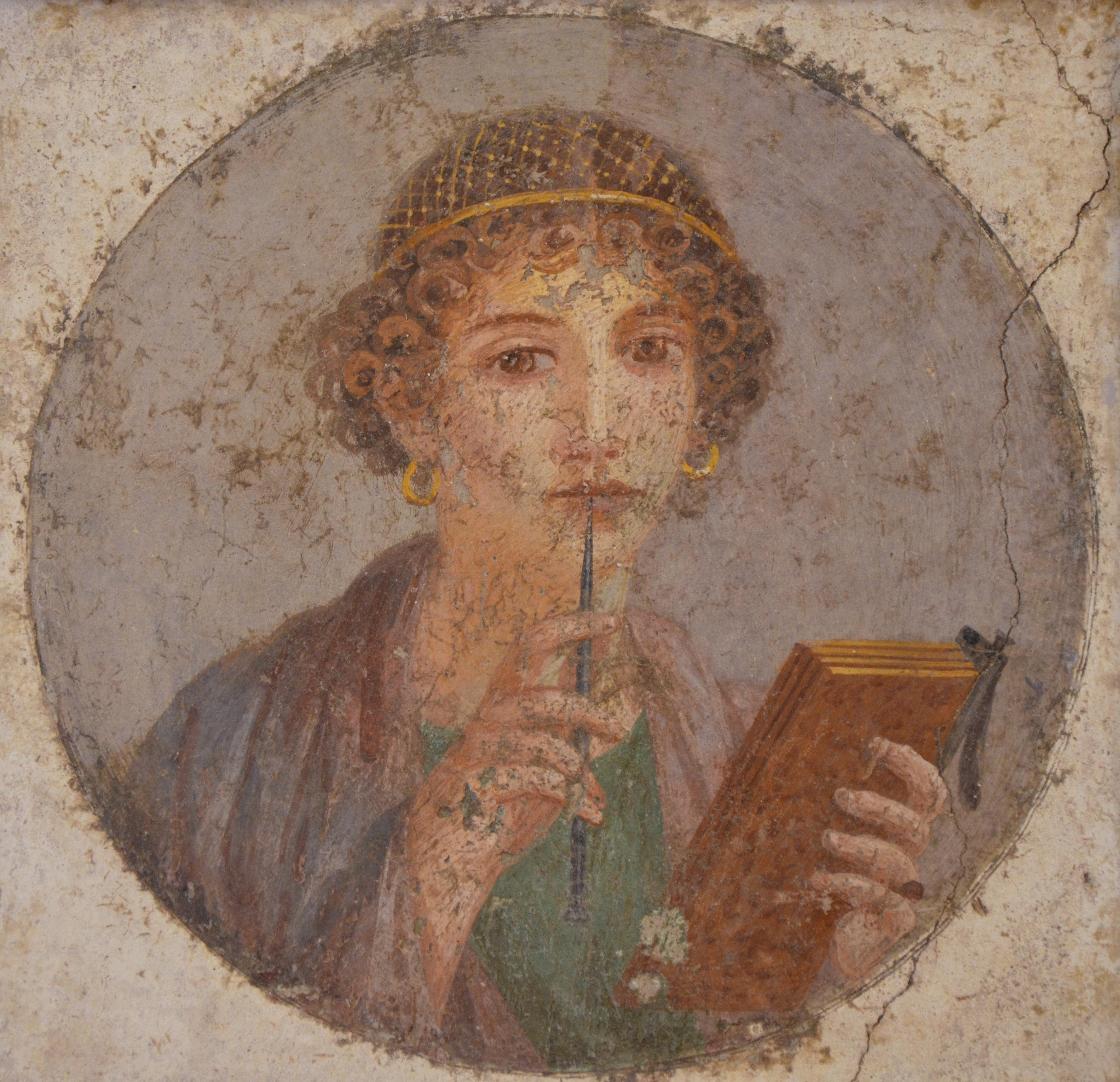 Tondo of Woman with wax tablets and stylus (so-called "Sappho"), National Archaeological Museum of Naples (inventory no. 9084). Roman fresco of about 50, from Pompeii (VI, Insula Occidentalis) - Discovered in 1760, is one of the most famous and beloved paintings, commonly called Sappho. Actually portrays a high-society Pompeian woman, richly dressed with gold-threaded hair and large gold earrings, bringing the stylus to the mouth and holding the wax tablets, notoriously accounting documents which therefore have nothing to do with poetry and even less with the famous Greek writer.